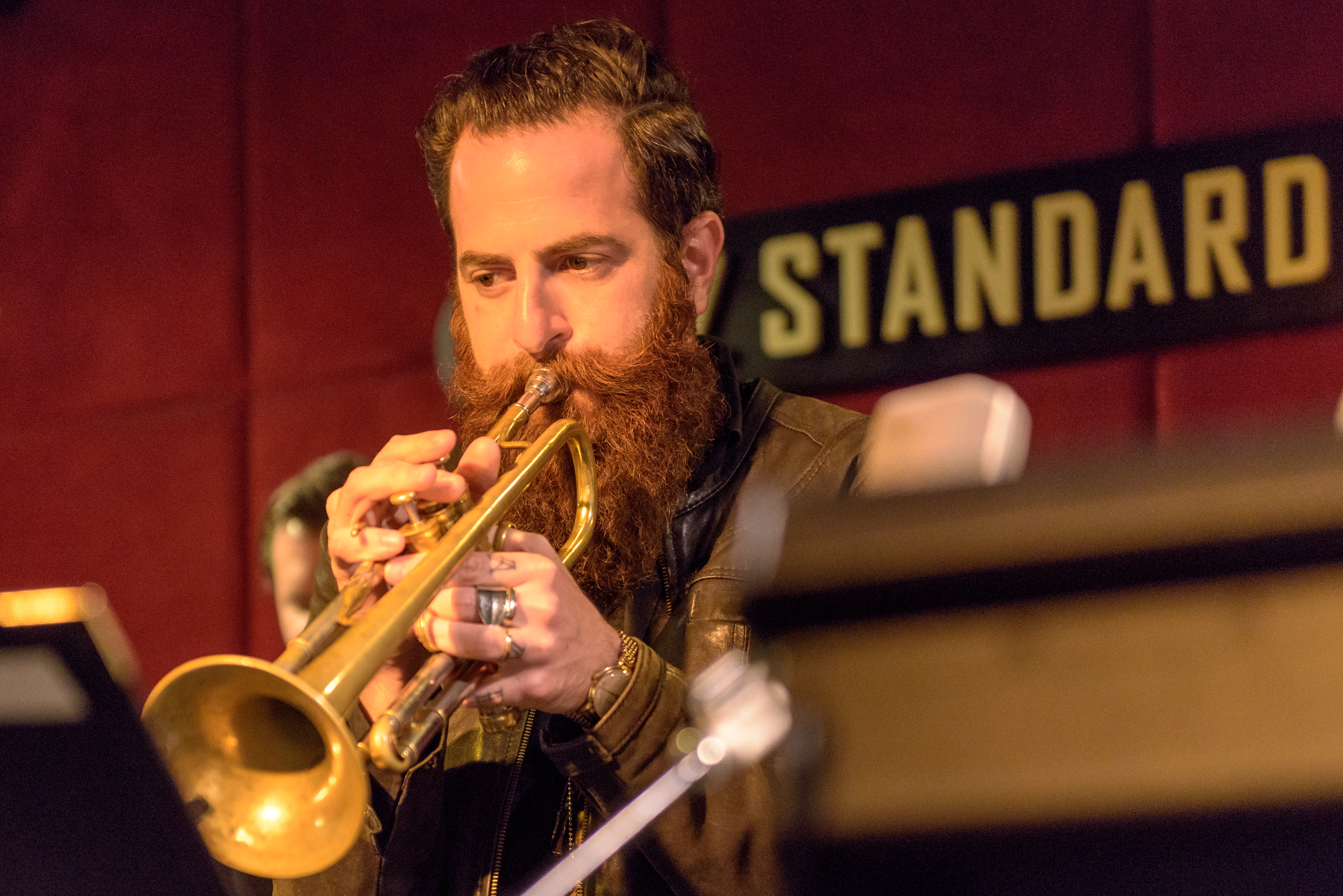 Avishai Cohen playing with Jazz Collective at Jazz Standard in 2015